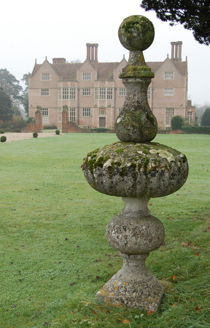 Moynes Park